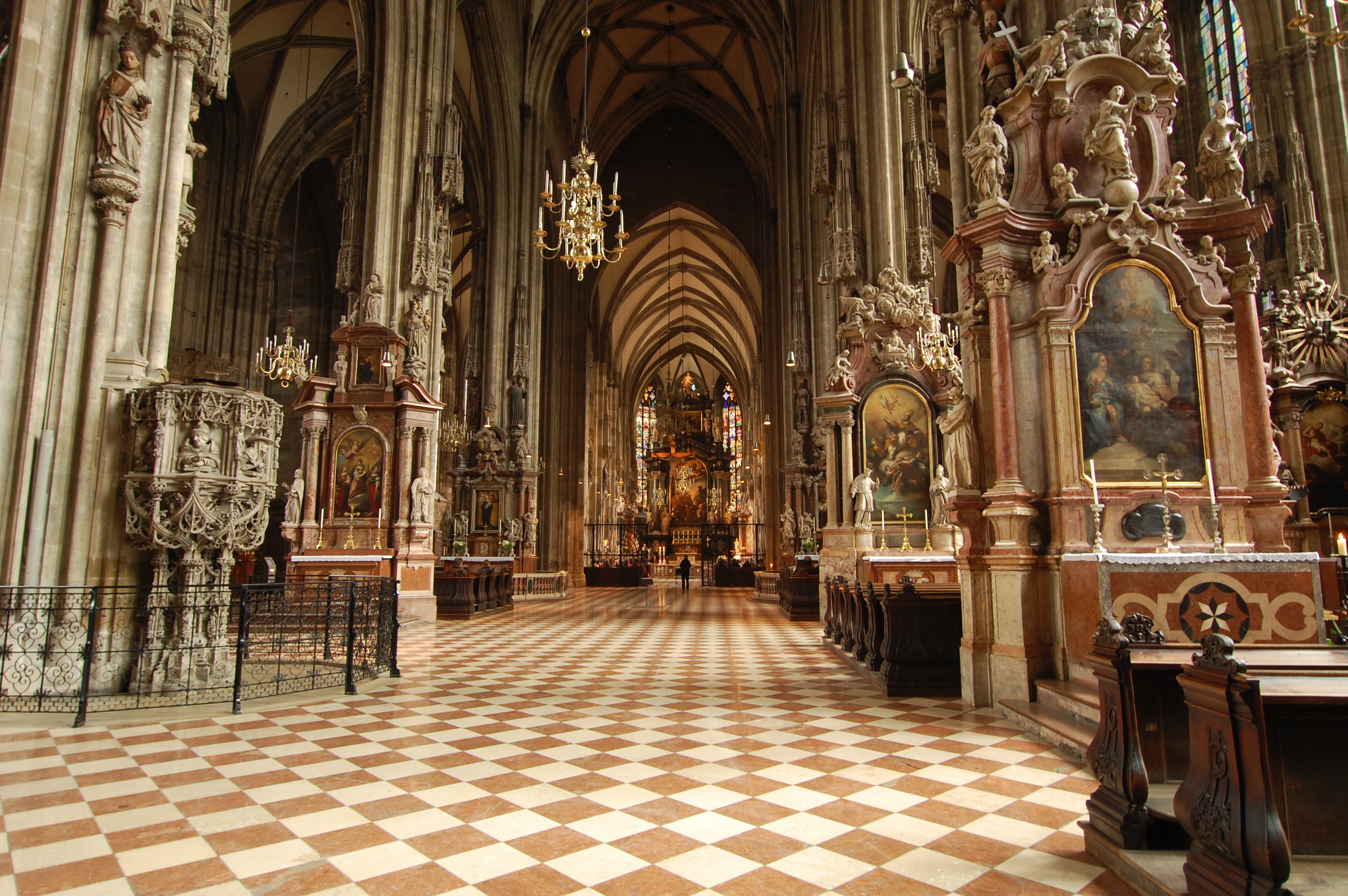 St. Stephen's Cathedral interior